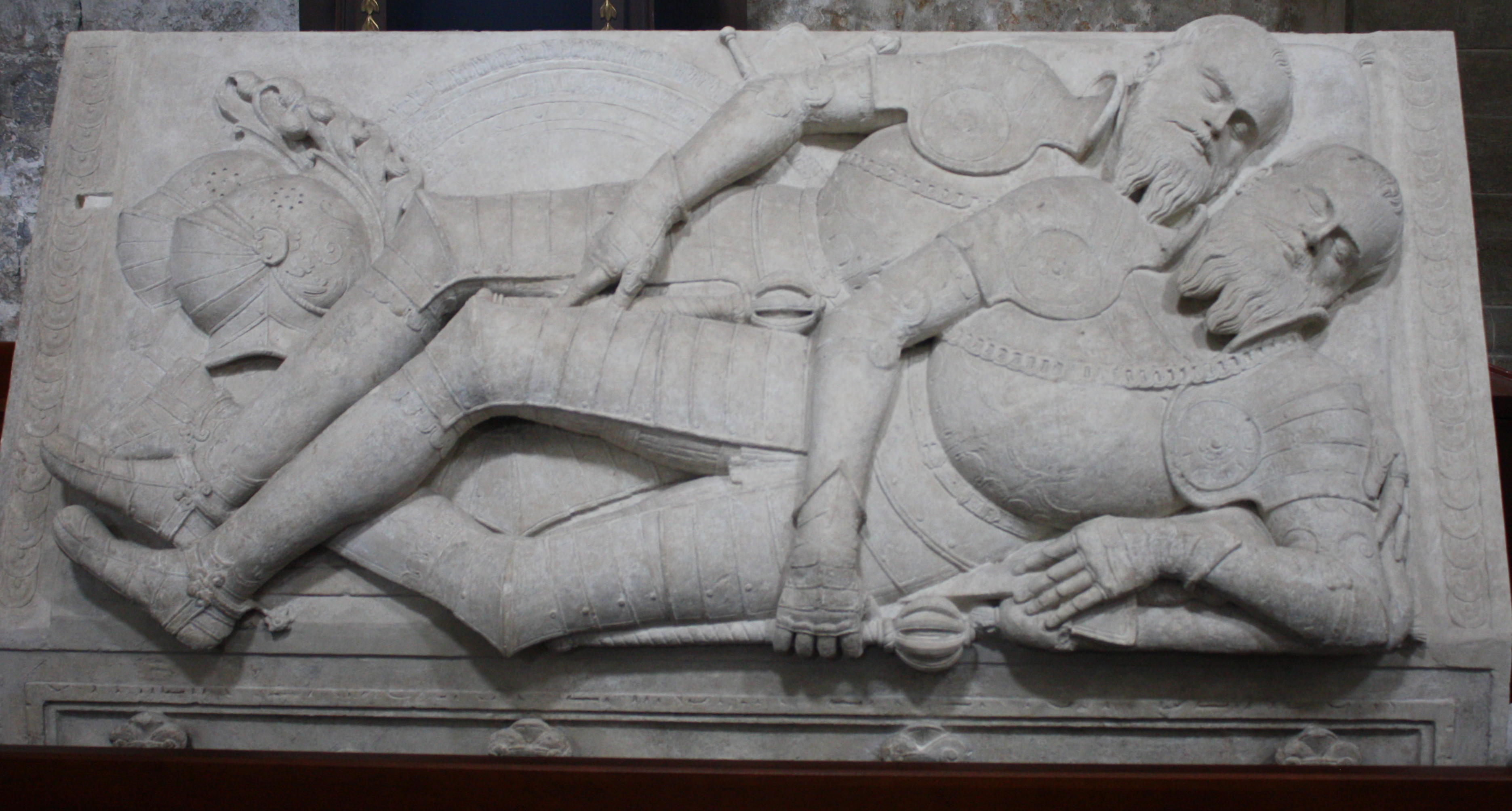 Former Cistercian abbey in Koprzywnica, renaissance tomb of Niedrzwicki knights